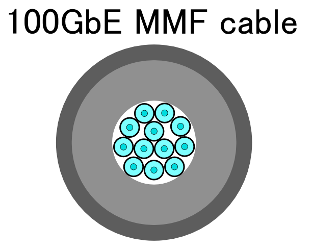 Section of a 100 Gb Ethernet Optical fiber cables.